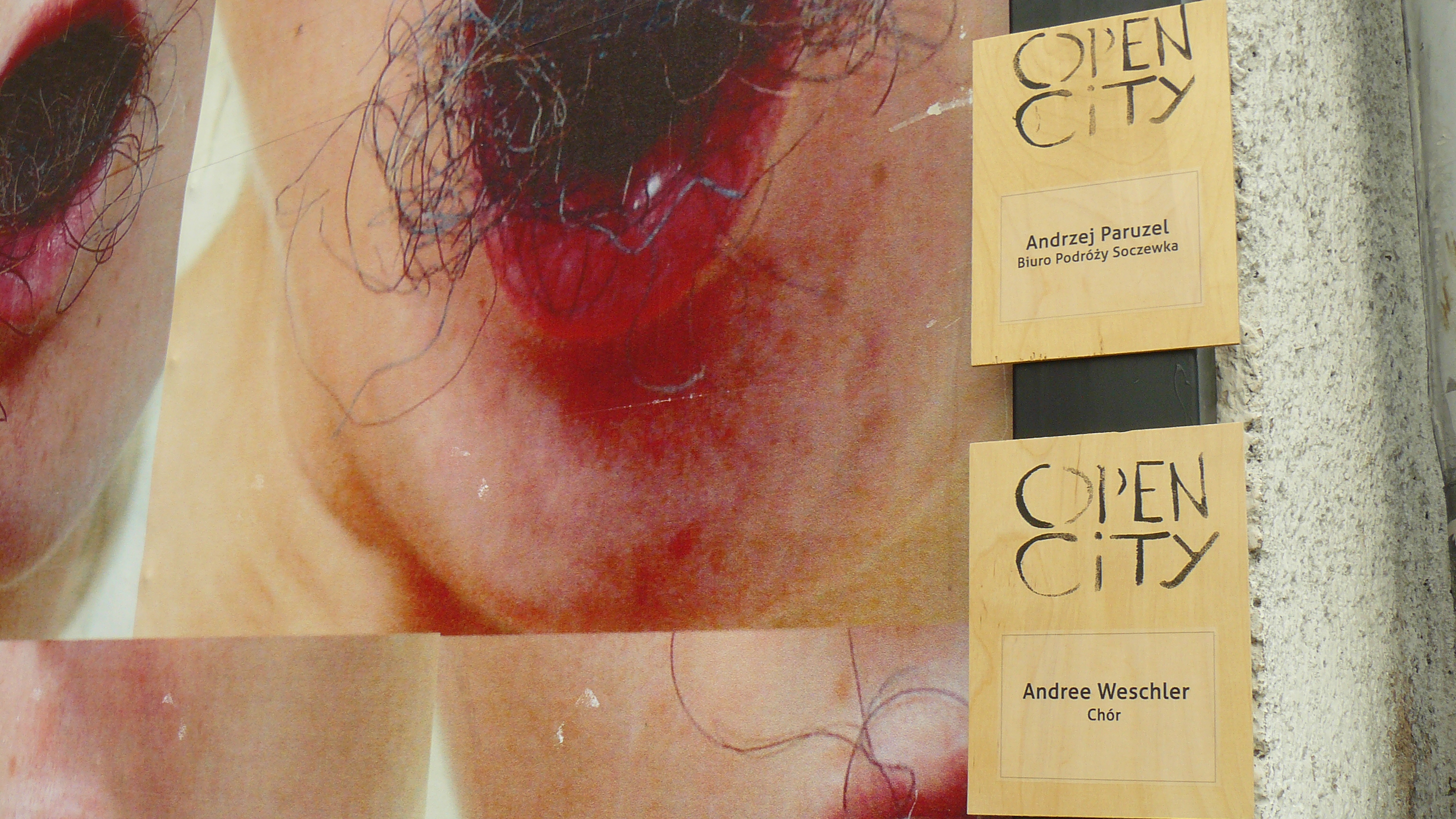 Andree Weschler - The Choir in Lublin